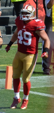 Bruce Miller in 2013.